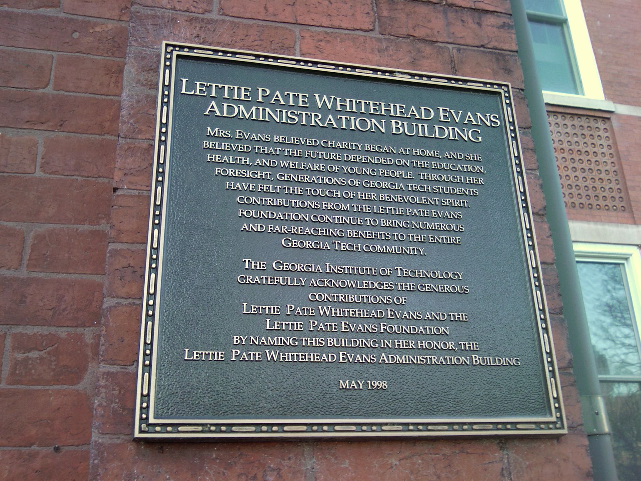 A photo of the plaque affixed to the front of Tech Tower at Georgia Tech. The plaque provides some background on Lettie Pate Evans. I took this photo in January 2007.